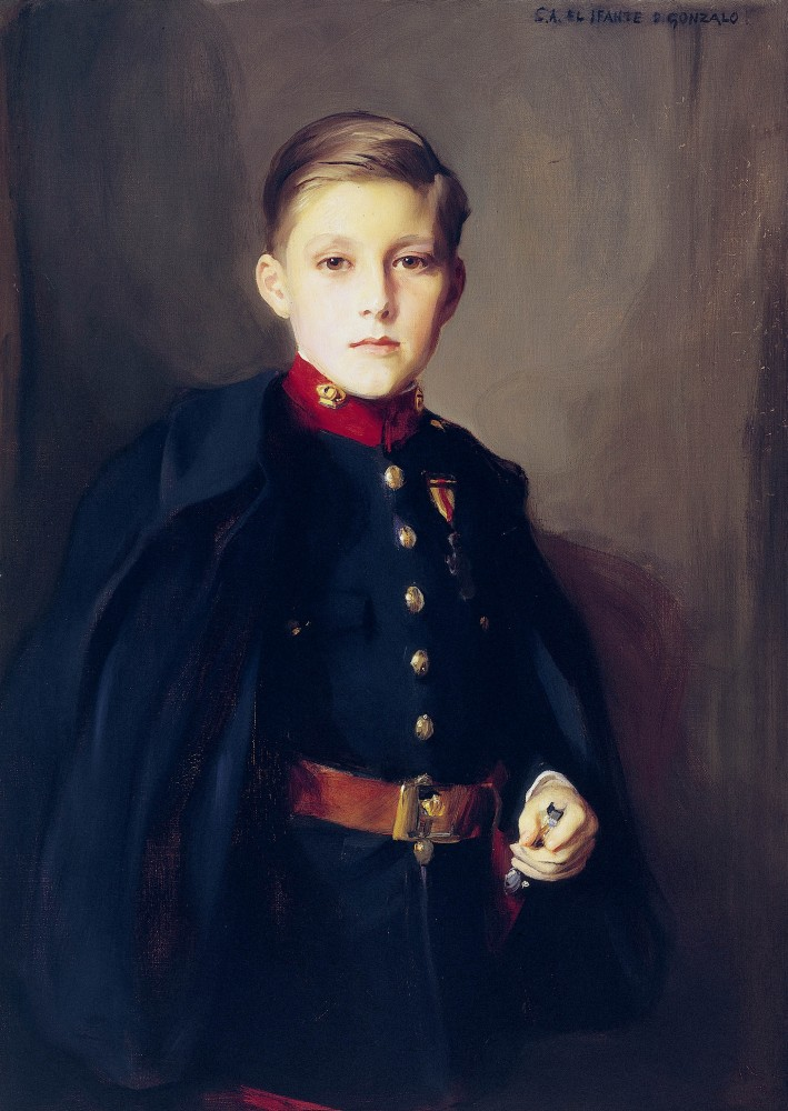 Portrait of Infante Gonzalo of Spain, son of Alfonso XIII, by Philip de Laszlo.